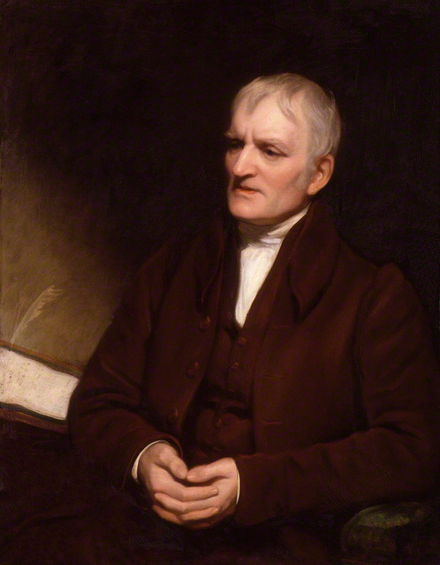 John Dalton oil on canvasmedium QS:P186,Q296955;P186,Q12321255,P518,Q861259 Height: 91.4 cm (35.9 in); Width: 71.4 cm (28.1 in) dimensions QS:P2048,91.4U174728;P2049,71.4U174728